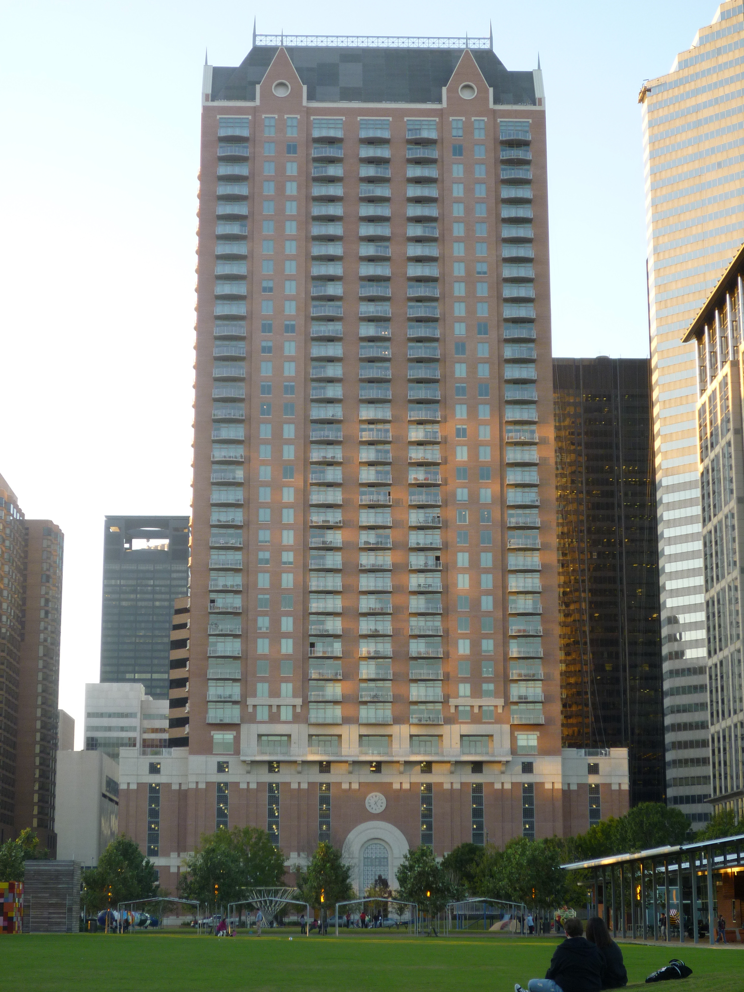 One Park Place from Discovery Green.